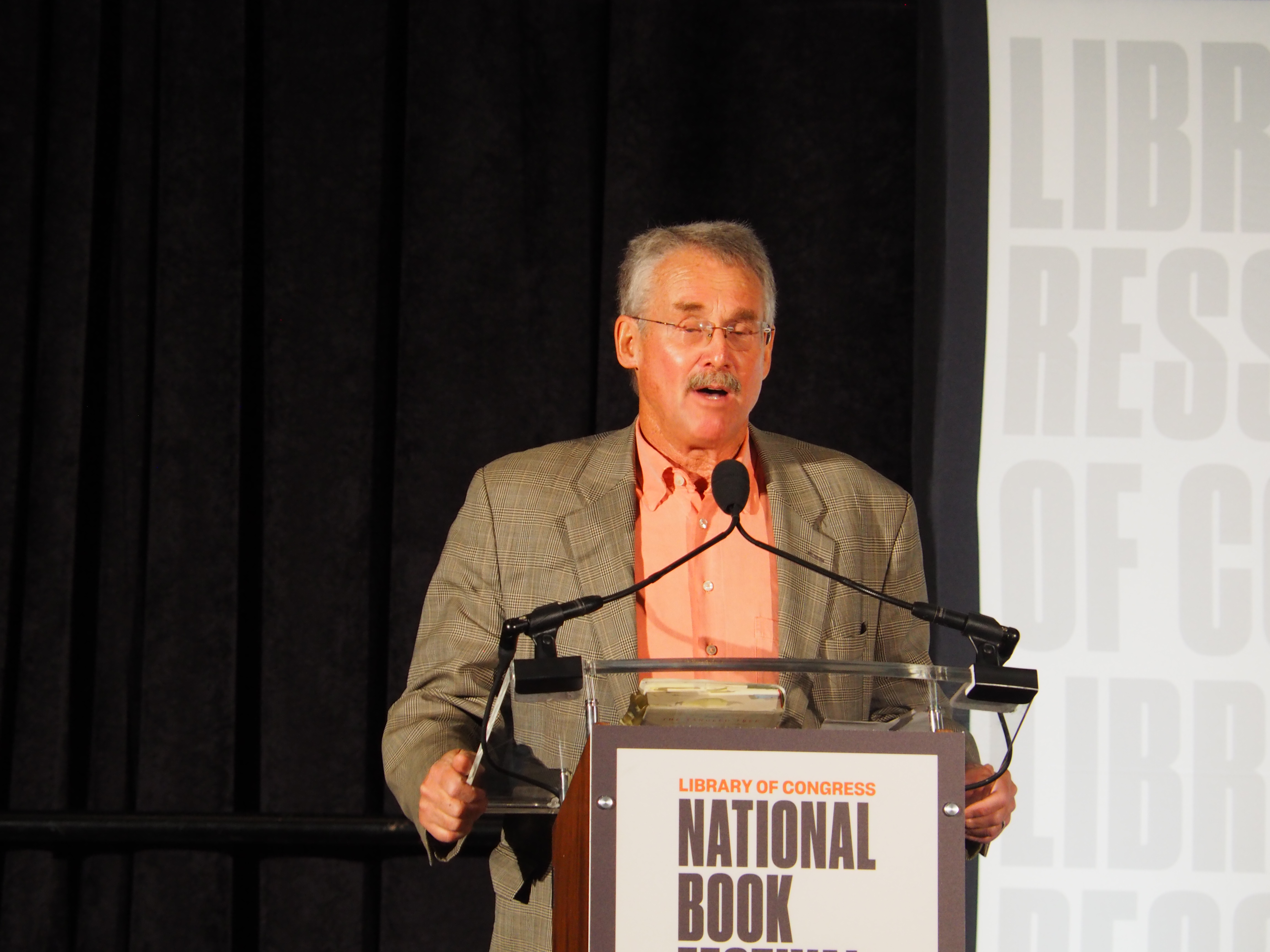 David quammen